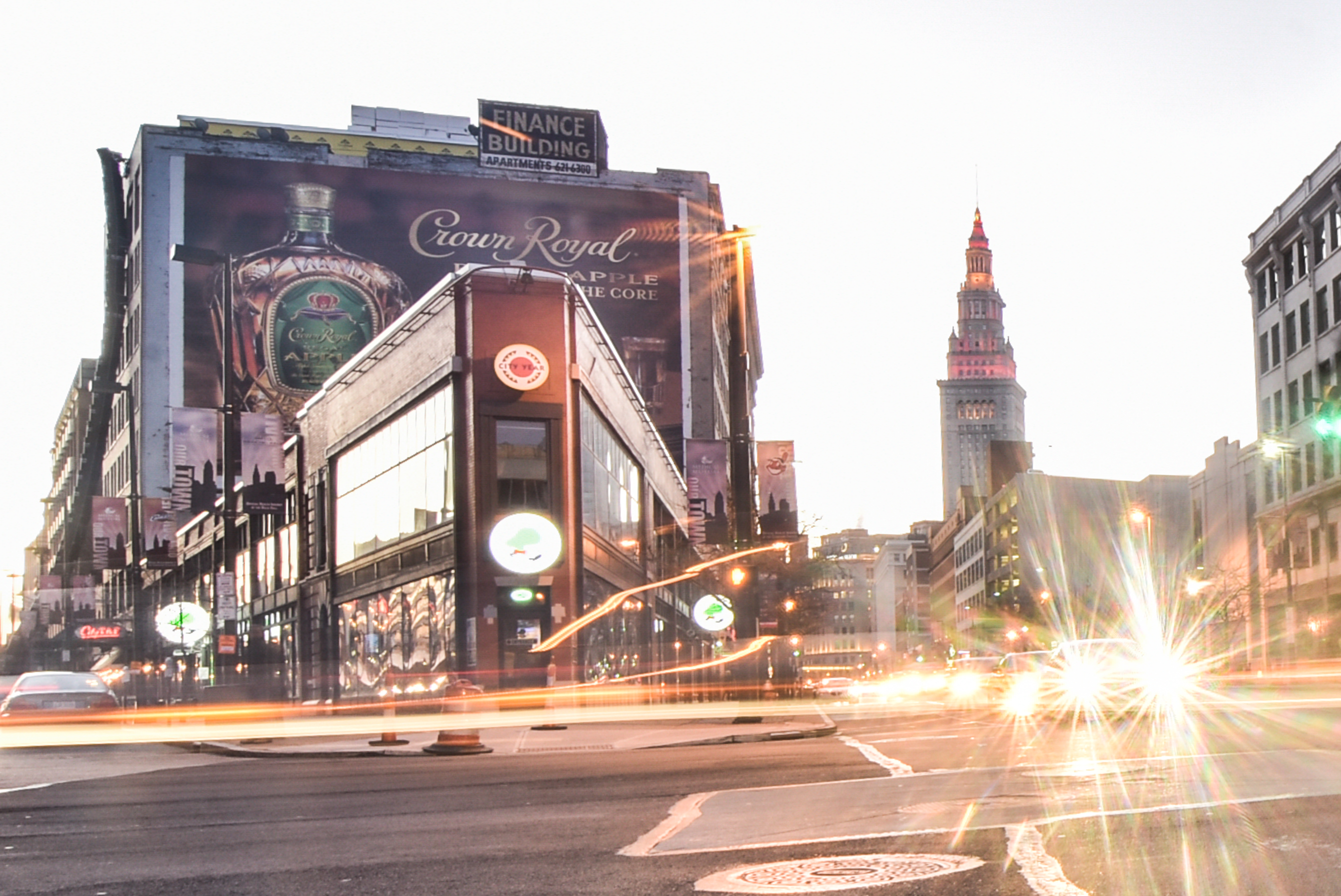 Cleveland Traffic